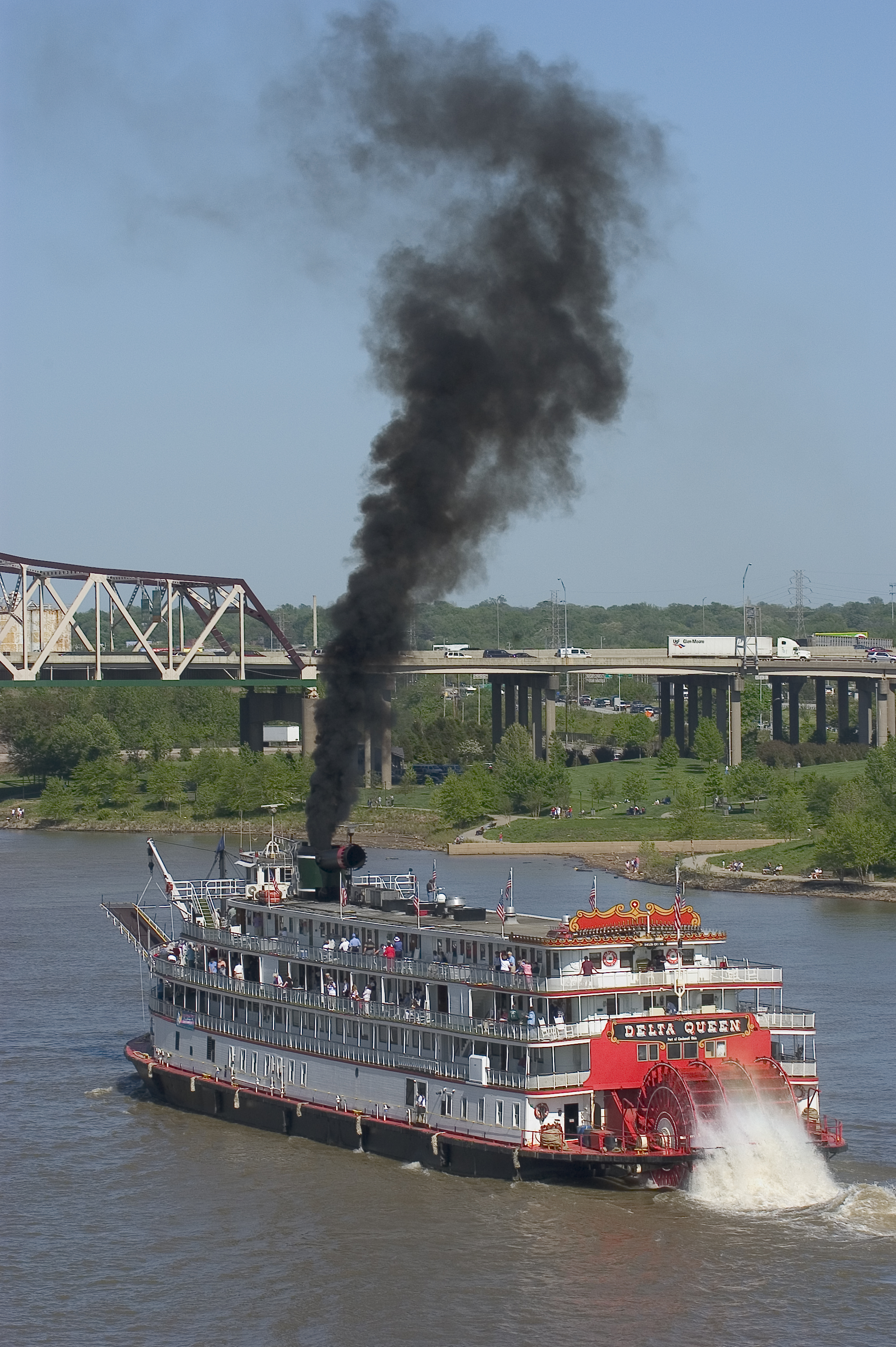 The Delta Queen at the start of The Great Steamboat Race on the Ohio river in Louisville, Kentucky. Her movable stack is in the lowered position to provide clearance under the bridges.